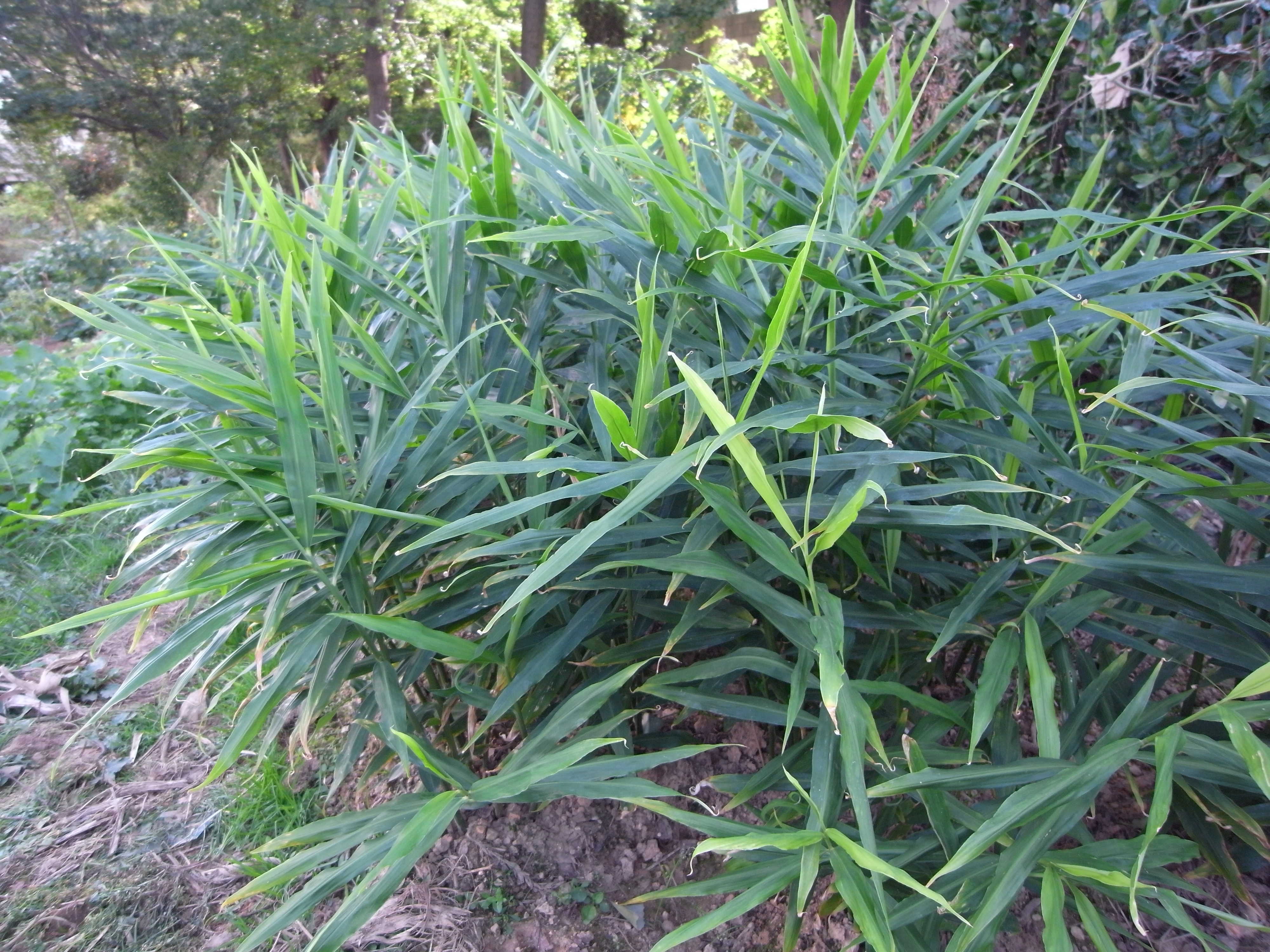 Zingiber officinale in Bupyeong, Korea